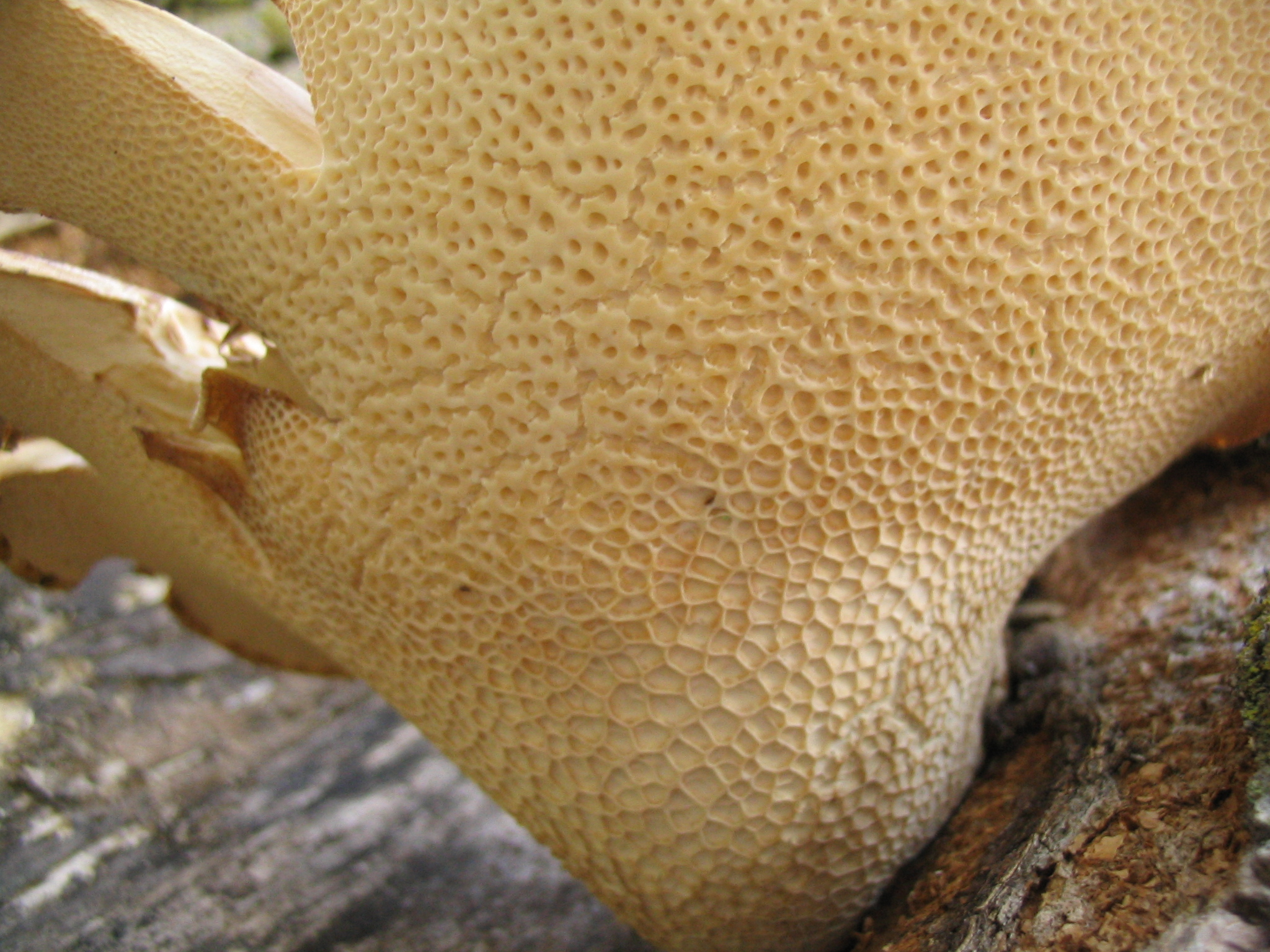 It is a young Polyporus squamosus.